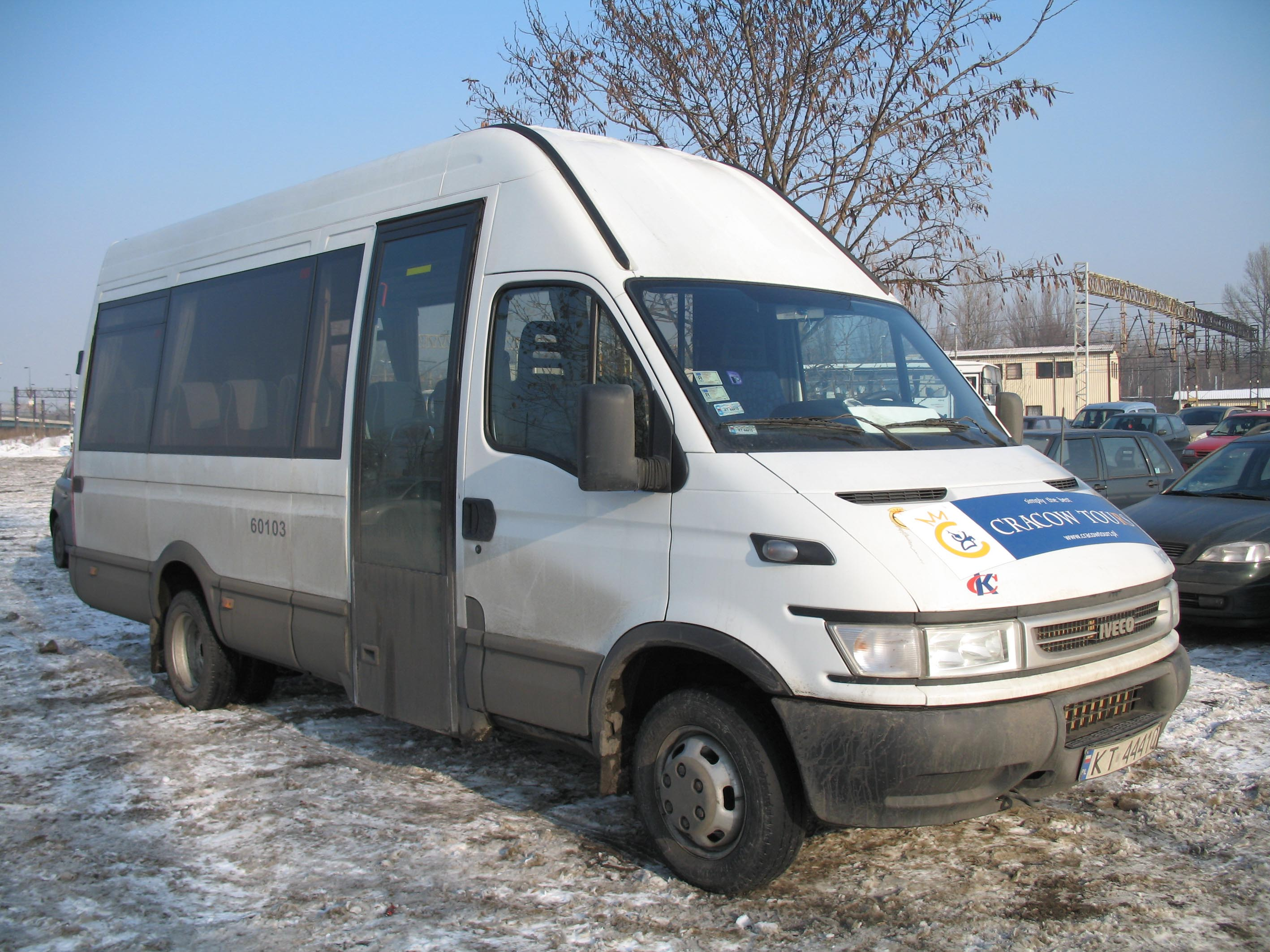 Kapena 50C13 Daily Intercity bus in Kraków, Poland. Built 2006, Cracow Tours operator from Kraków (ex. PKS Tarnów bus).